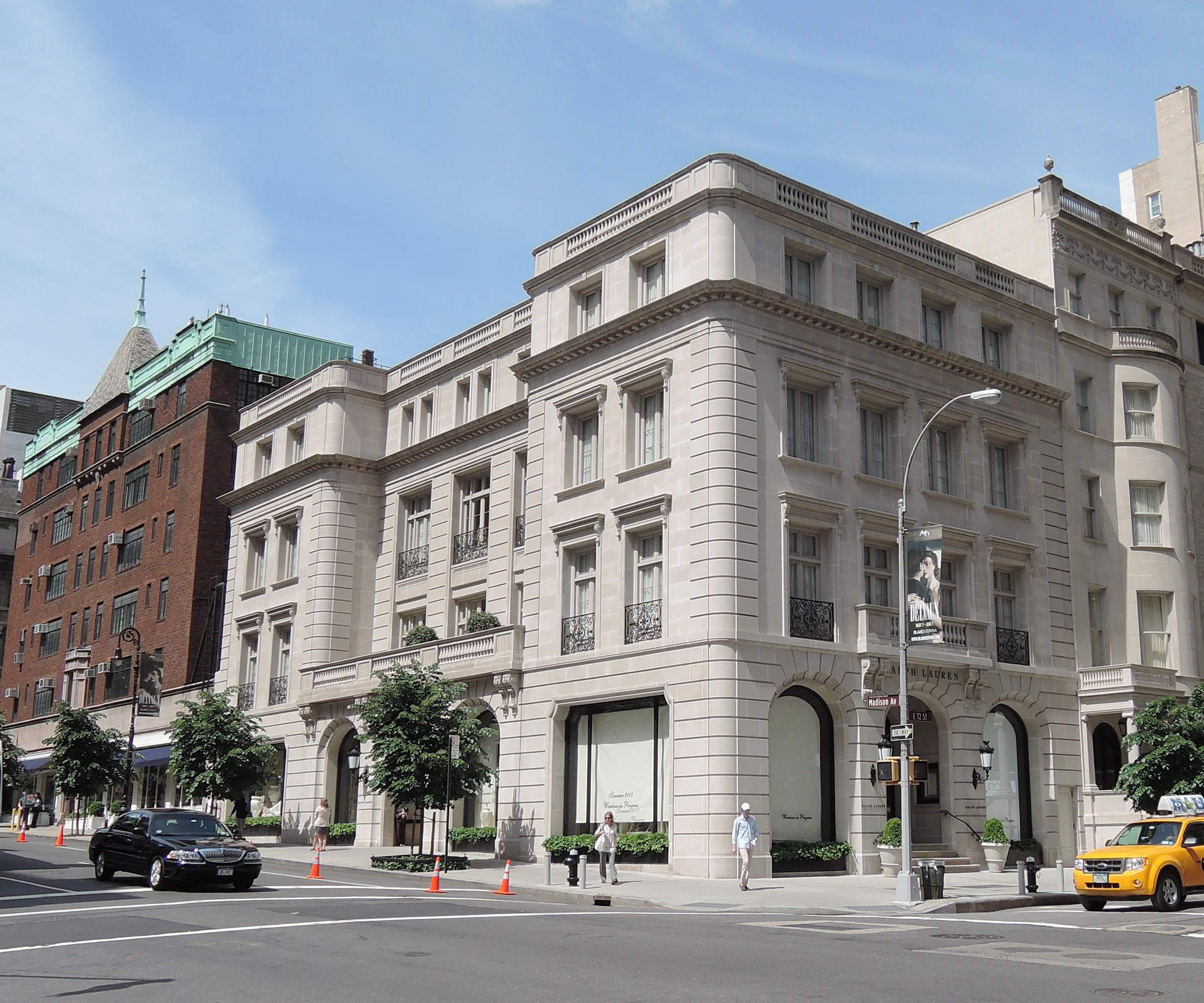 Looking west across 72nd Street and Madison Avenue on a sunny morning.